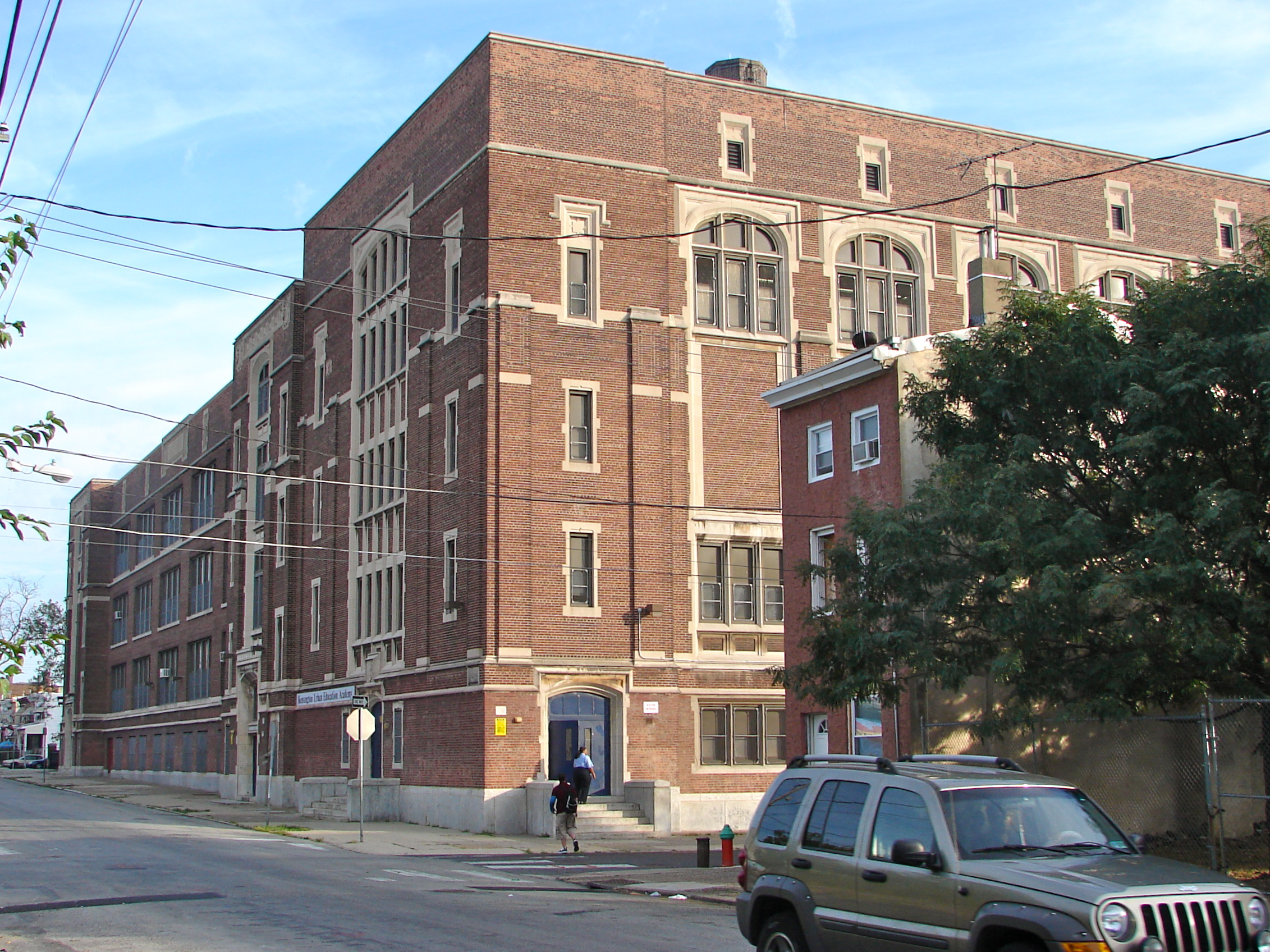 Kensington High School, the former Kensington High School for Girls in Philadelphia on the NRHP since November 18, 1988. At 2051 Coral Street in the Kensington neighborhood of NE Philly. About a block off Frankford Ave.